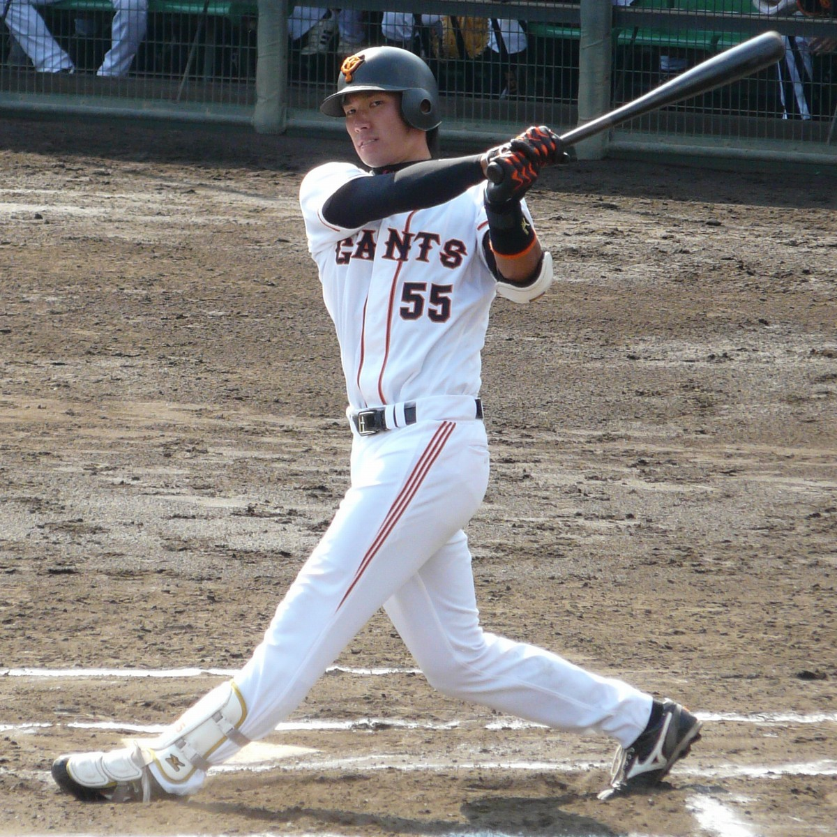 Taishi-Ota